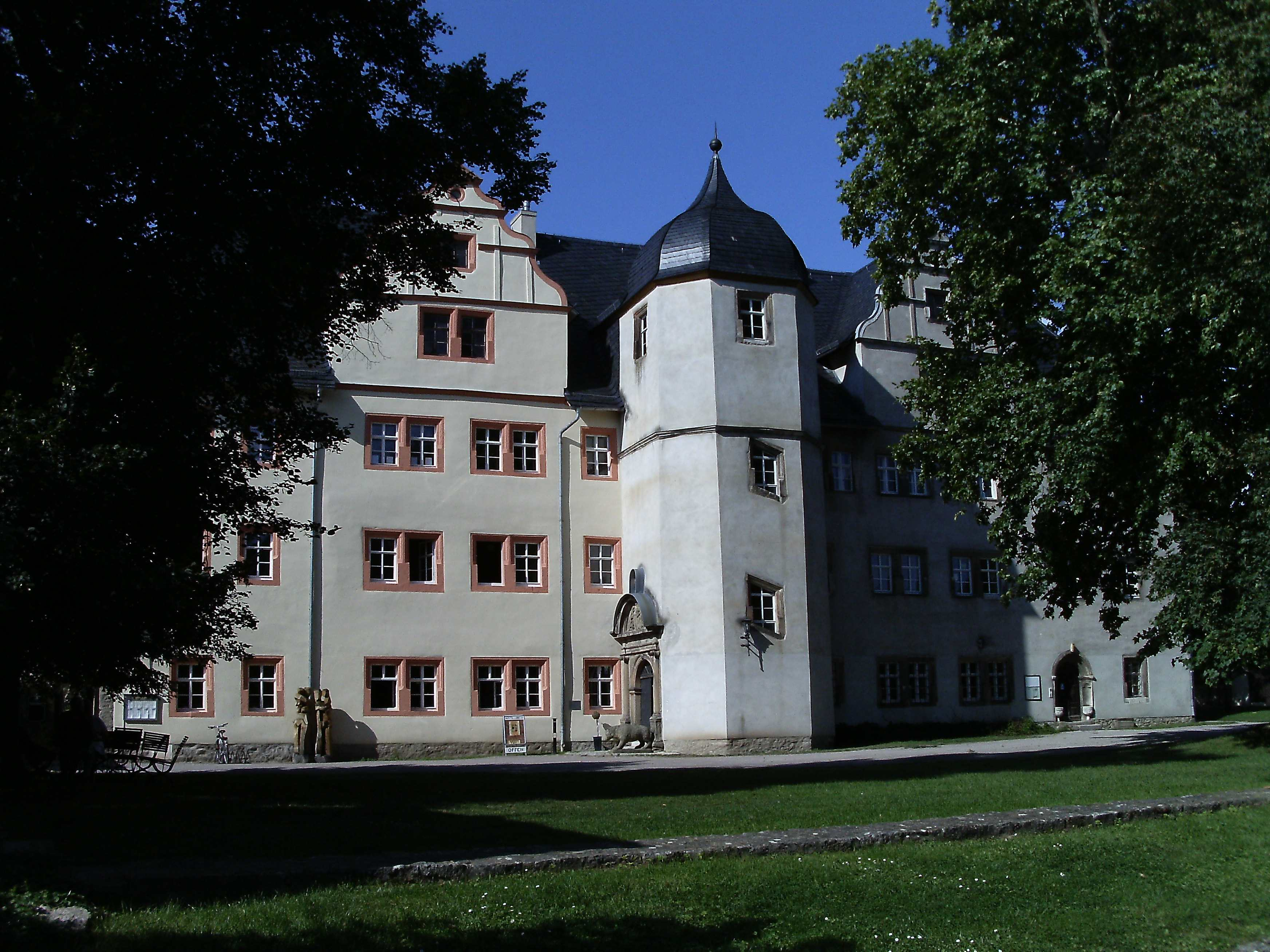 Renaissance castle of Kromsdorf (district of Weimarer Land, Thuringia)